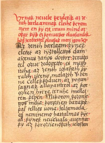 83rd page of the Kazinczy-Codex